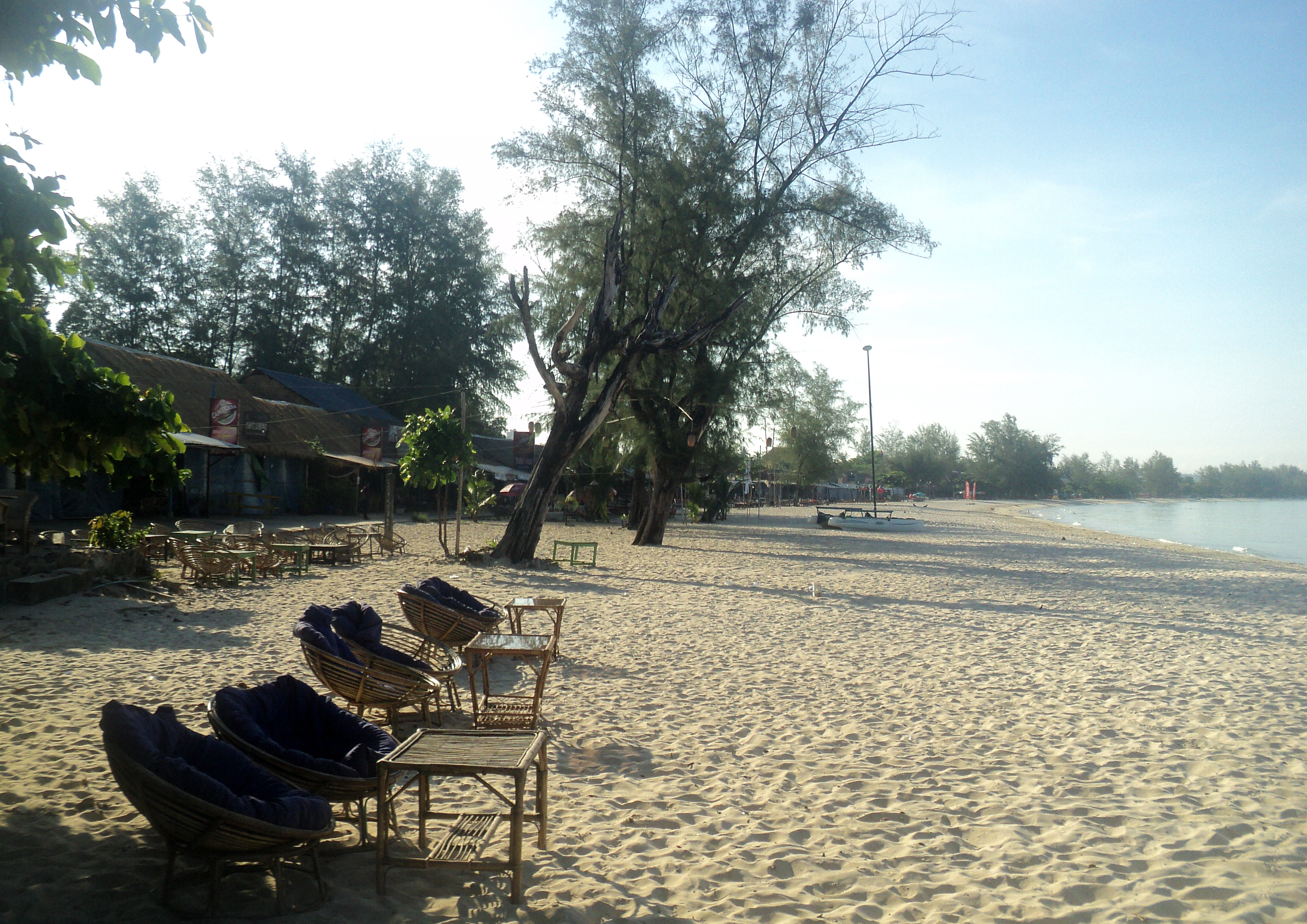 image of Ochheuteal beach Sihanoukville on rainy low season day in August 2014.jpg